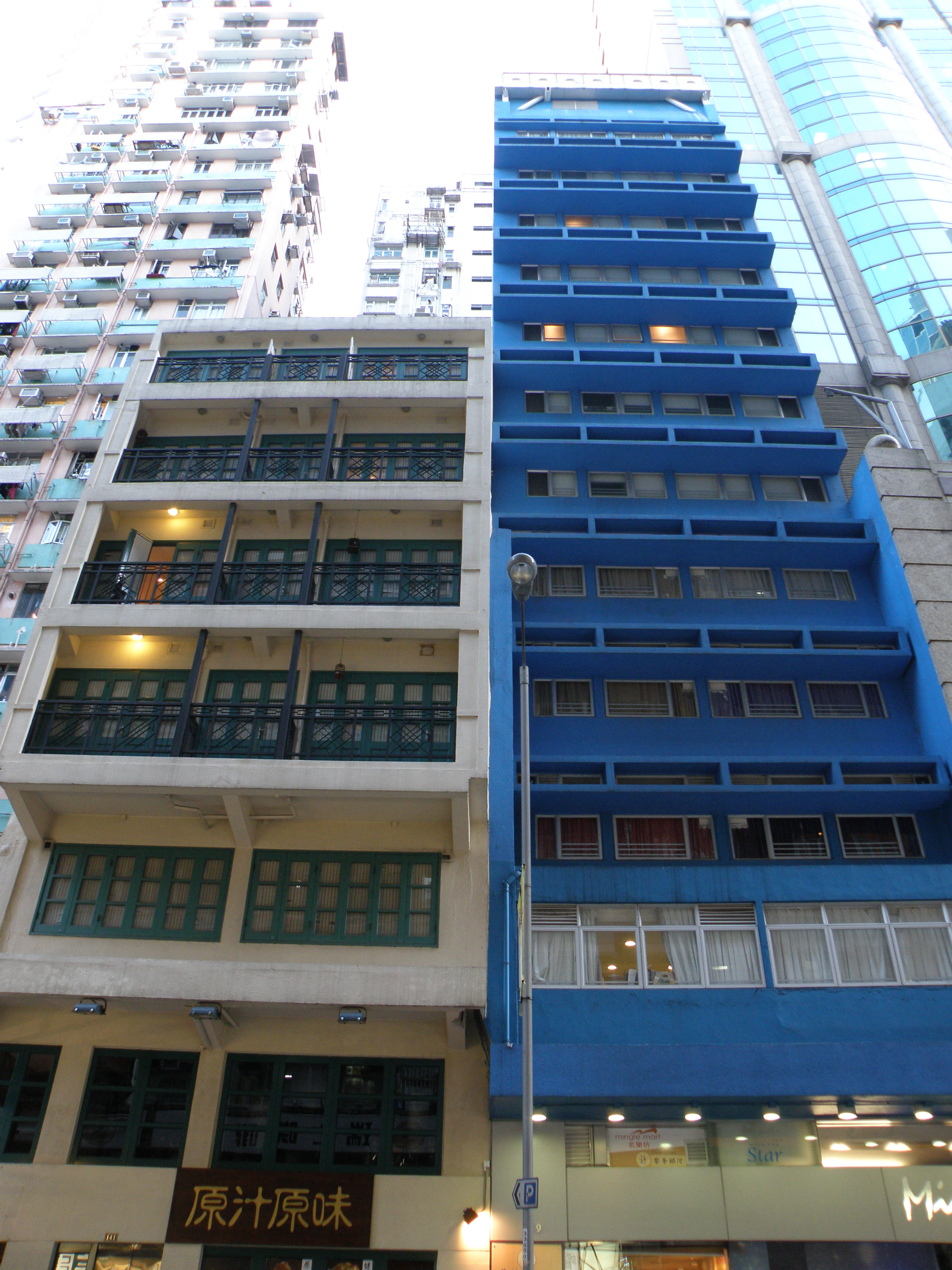 Mingle Place Hotel (Wan Chai), Hong Kong.